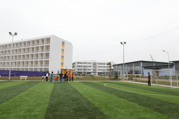 View of Student Buildings in Hoa Lac campus of FPT University from a football field.